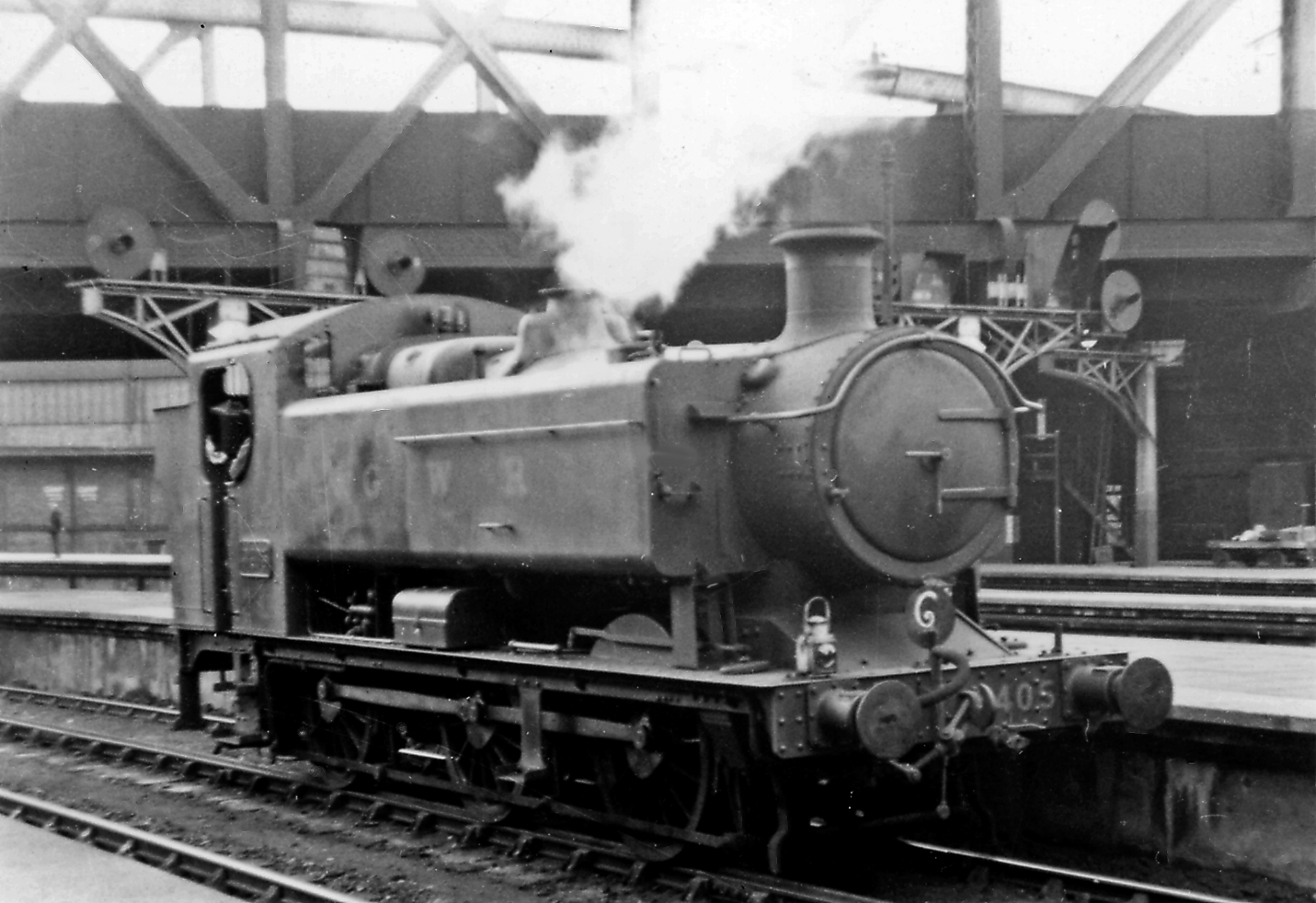 New - and novel - GWR Hawksworth '9400' 0-6-0PT at Paddington. After the War, Hawksworth introduced an enlarged version, the '9400' class, of the traditional 0-6-0 Pannier tank. With Bishops Bridge above, No. 9405 was only a month old (built 5/47, withdrawn 6/65) when backing out of Platform 3 after the empty train it had brought in had departed.